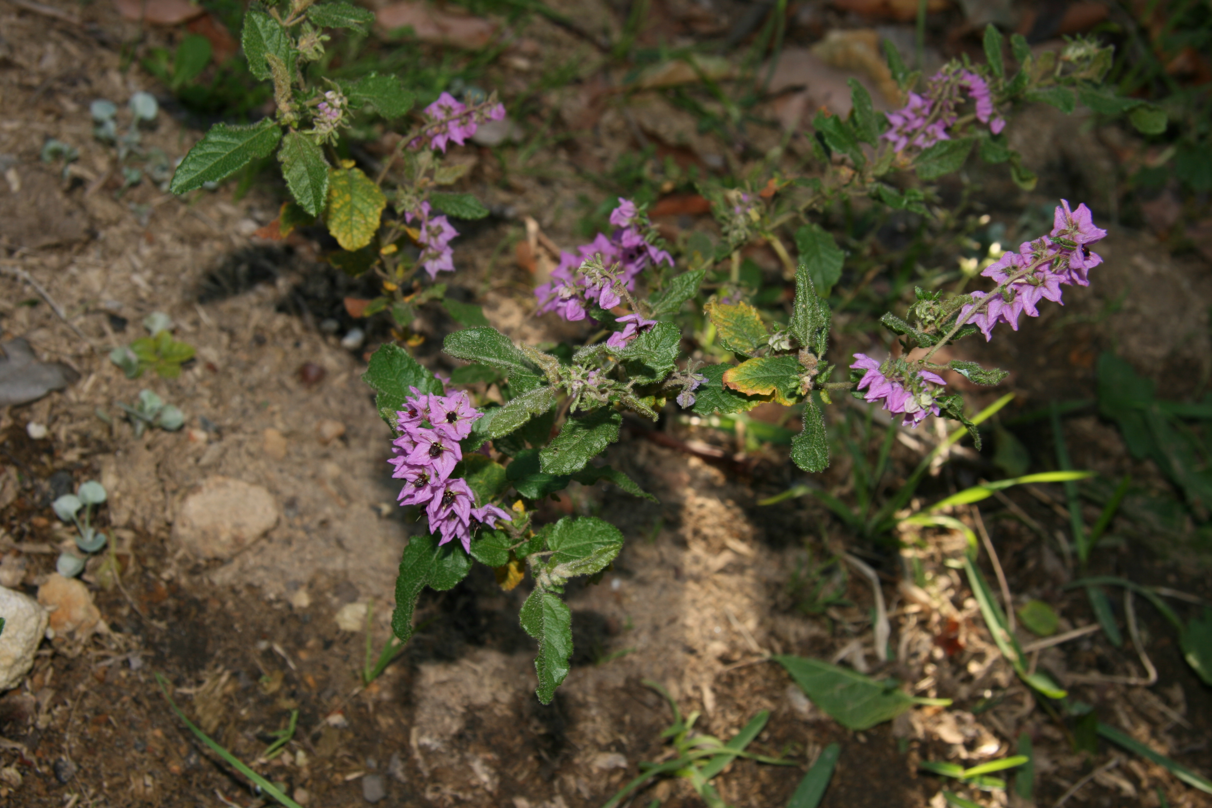 Thomasia purpurea cultivated in my garden